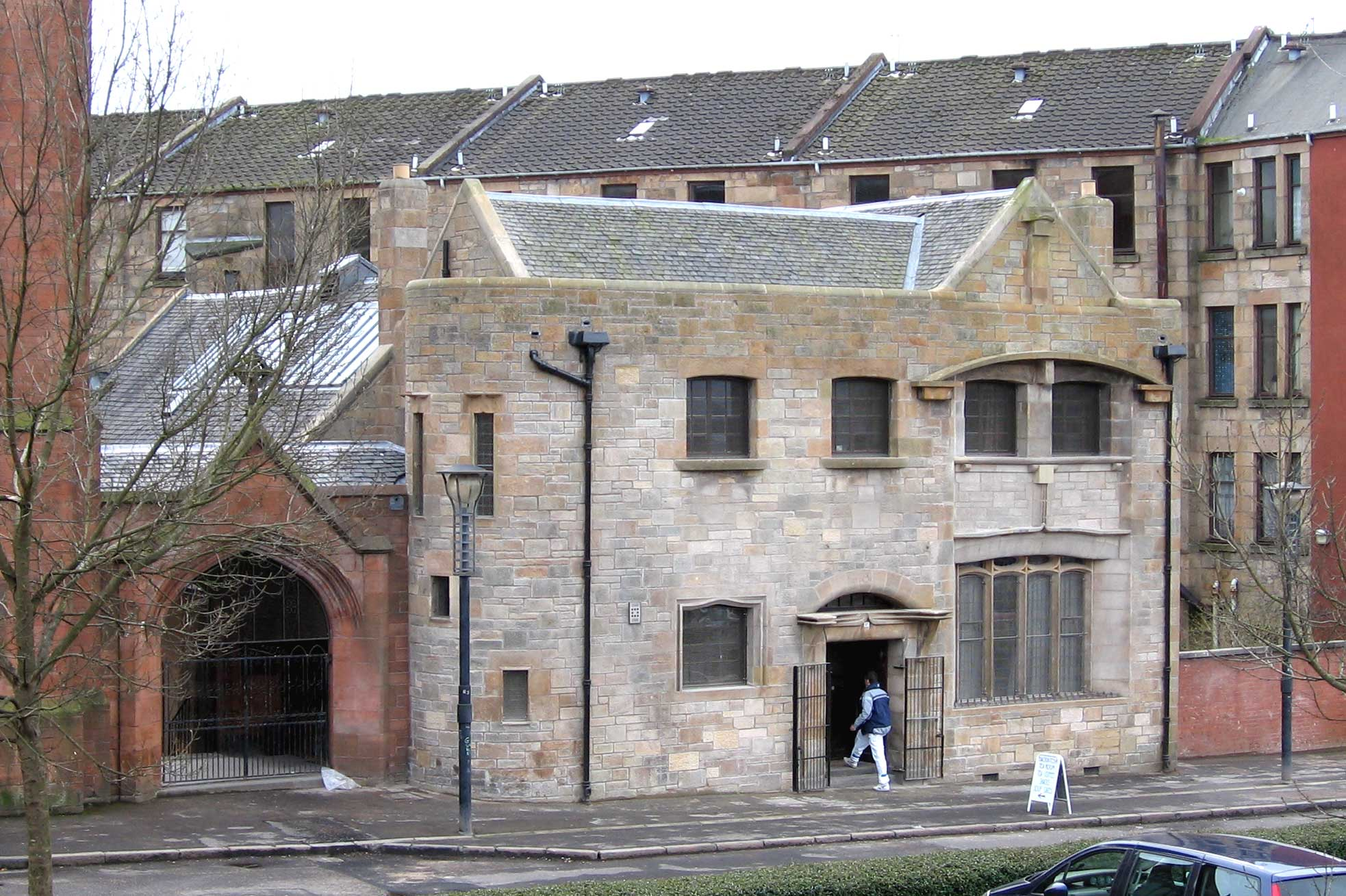 Ruchill Church Hall, Glasgow designed by Charles Rennie Mackintosh. photograph taken on 5 April 2006 by User:Dave souza. Any re-use to contain this licence notice and to attribute the work to User:Dave souza at Wikipedia.